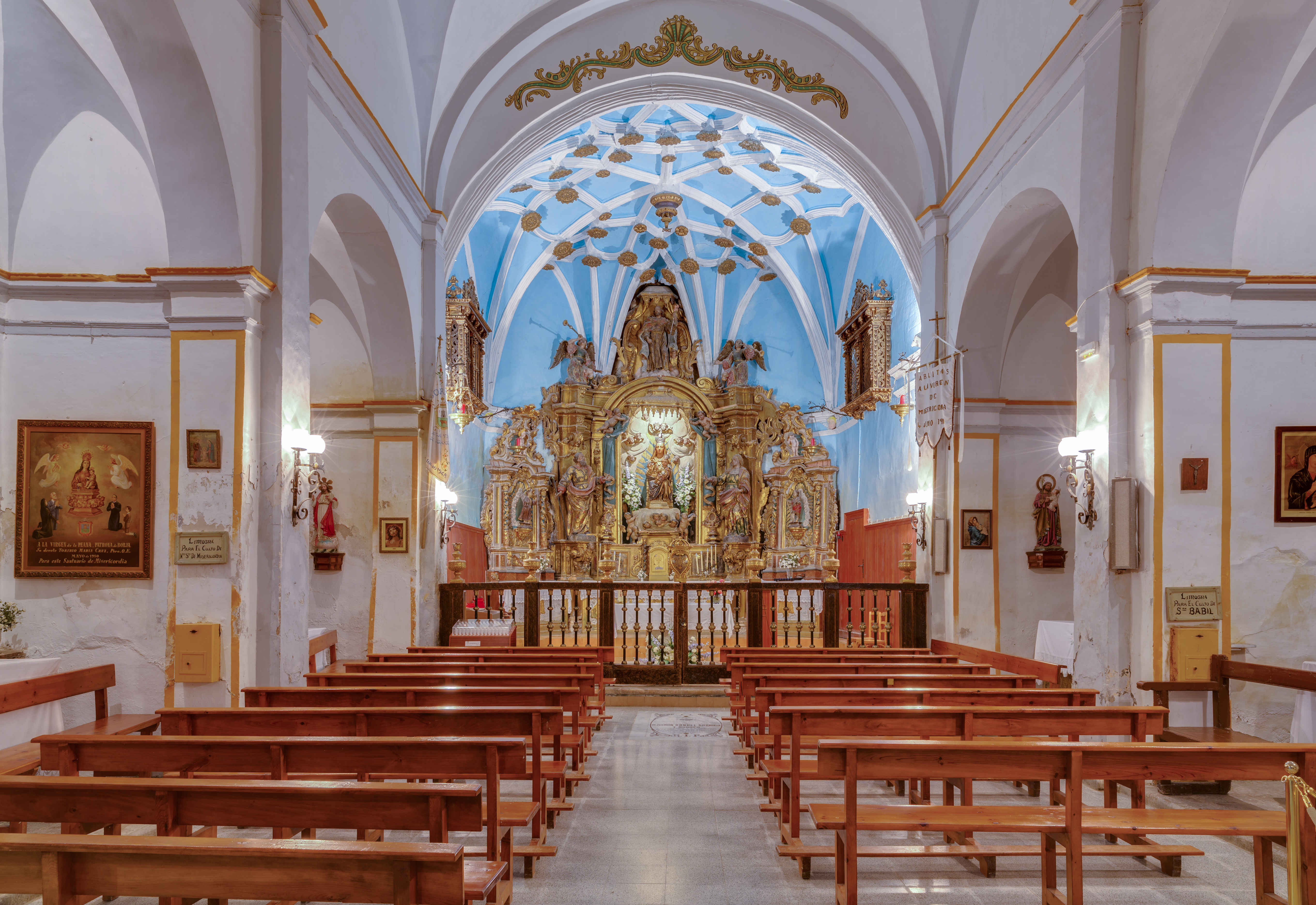 Sanctuary of Mercy, Borja, Zaragoza, Spain